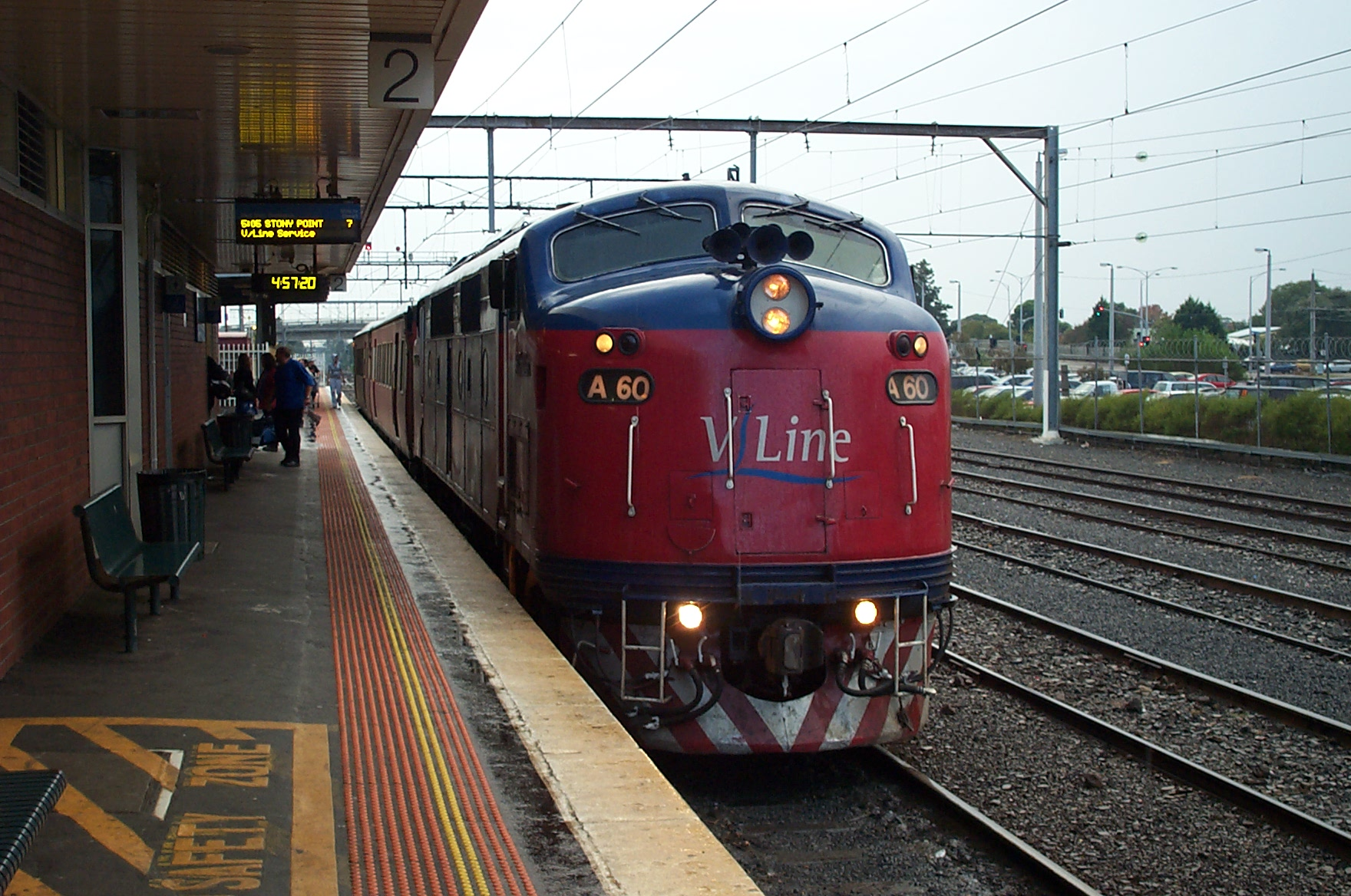 A Stony Point train waits to depart from Frankston railway station, Melbourne